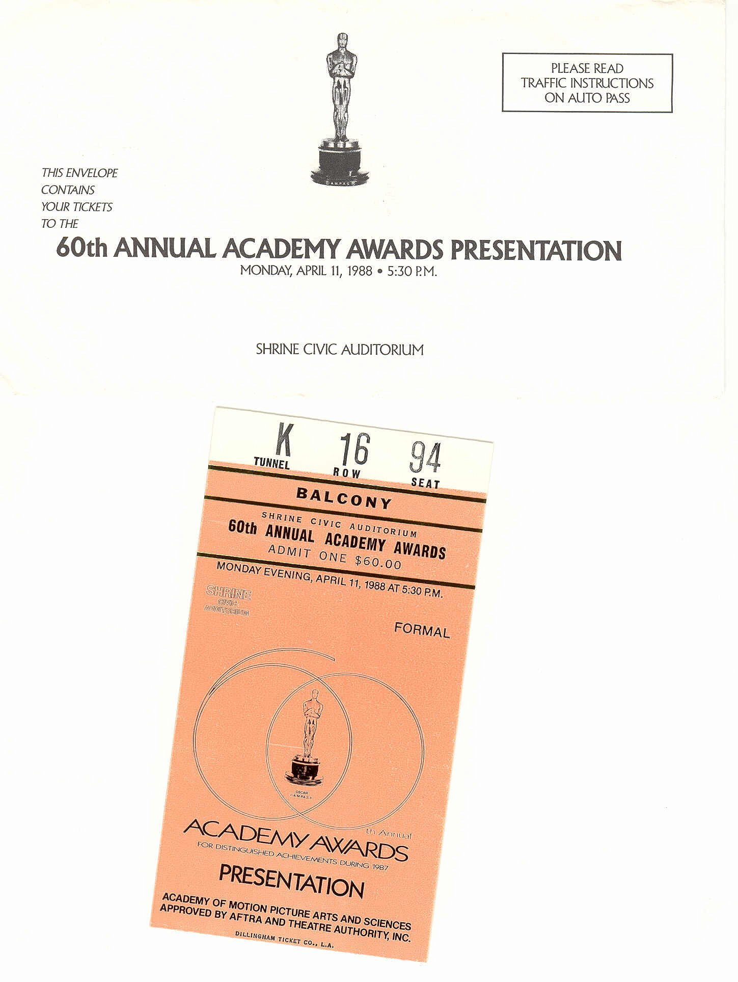 Ticket to the 60th Annual Academy Awards